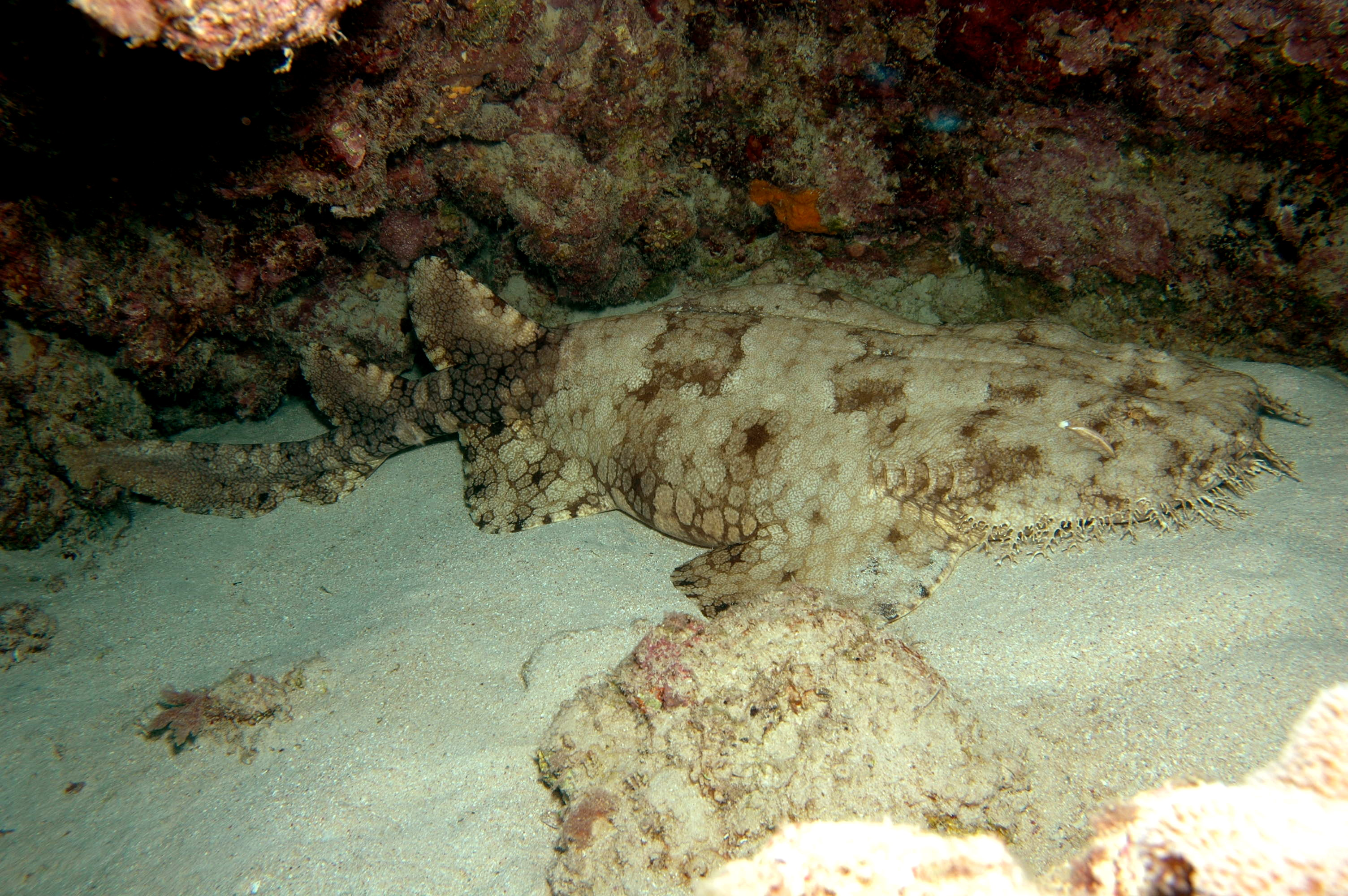 Tasselled wobbegong (Eucrossorhinus dasypogon) at the Great Barrier Reef, Cairns, Australia